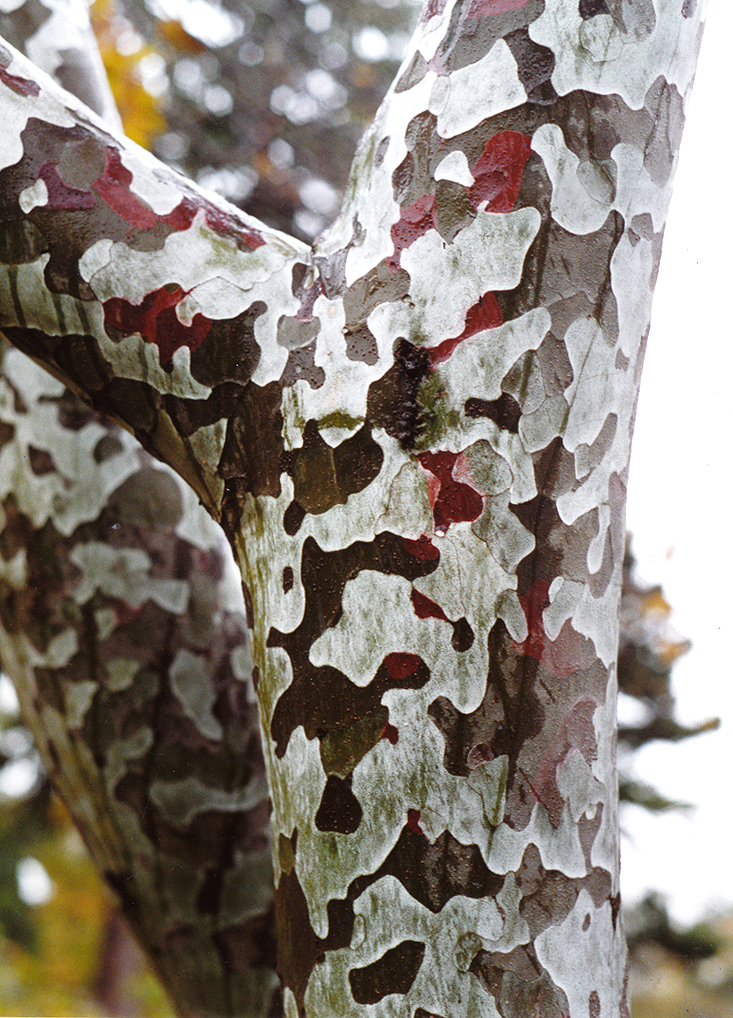 Pinus bungeana (Lacebark Pine) close up at Kew Gardens, London, England.